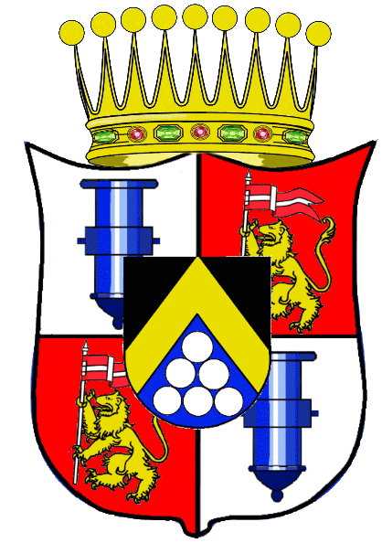 Coat of Arms of the Danish Earl von Luckner